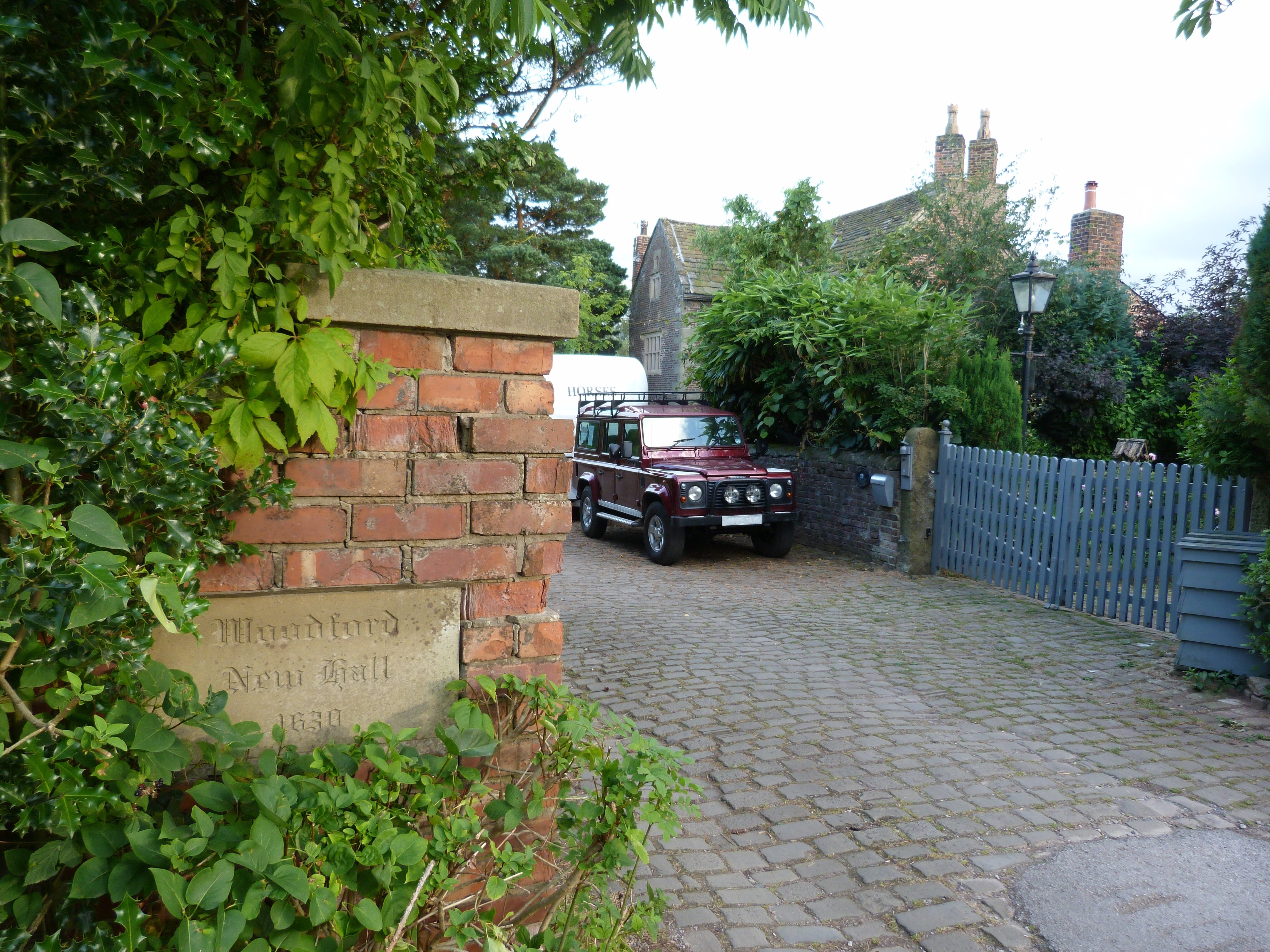 New Hall Cottage, Woodford, Stockport